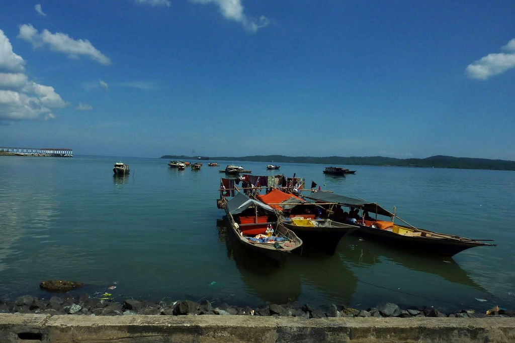 Flotilla at Lahad Datu Water Front